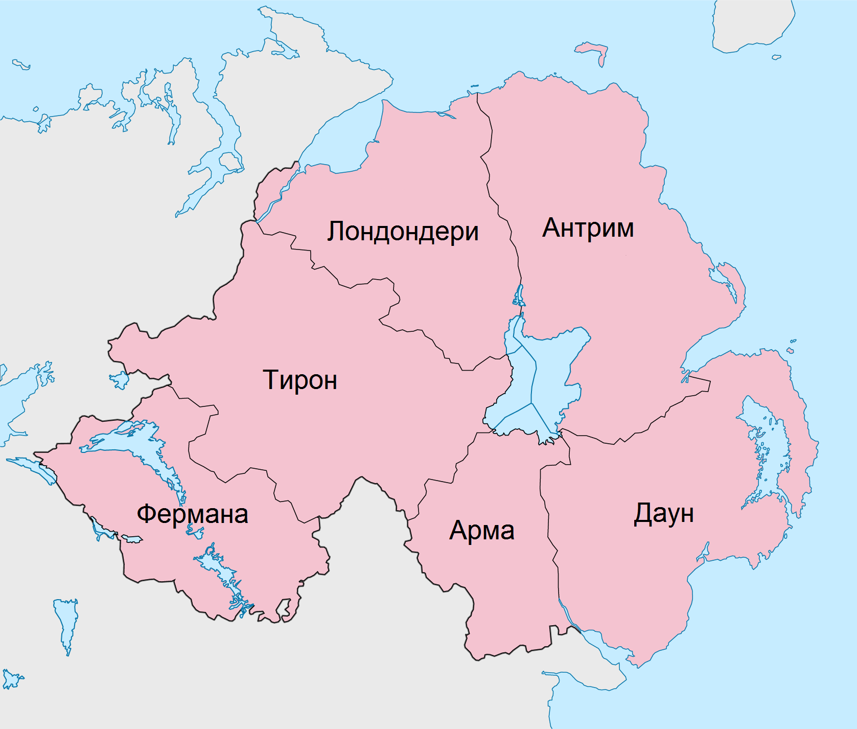 Map in Macedonian. of the counties of Northern Ireland.